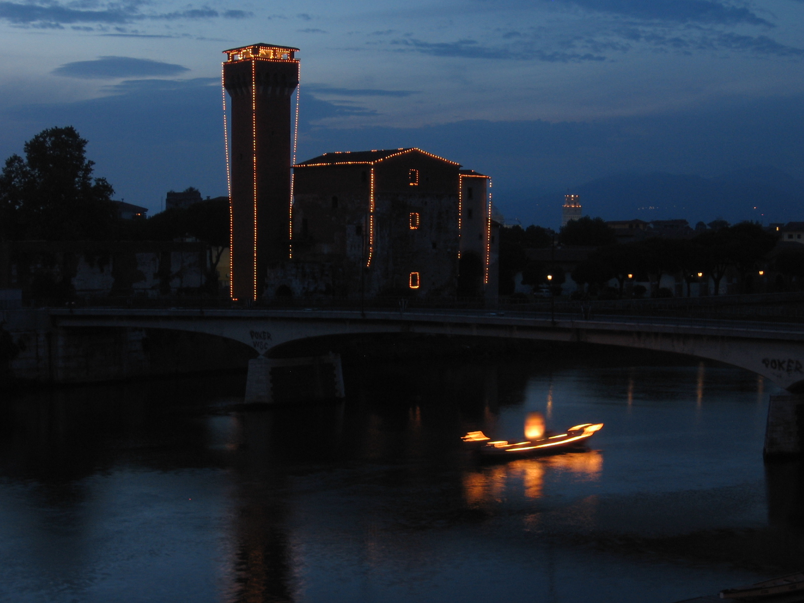 luminara di san ranieri